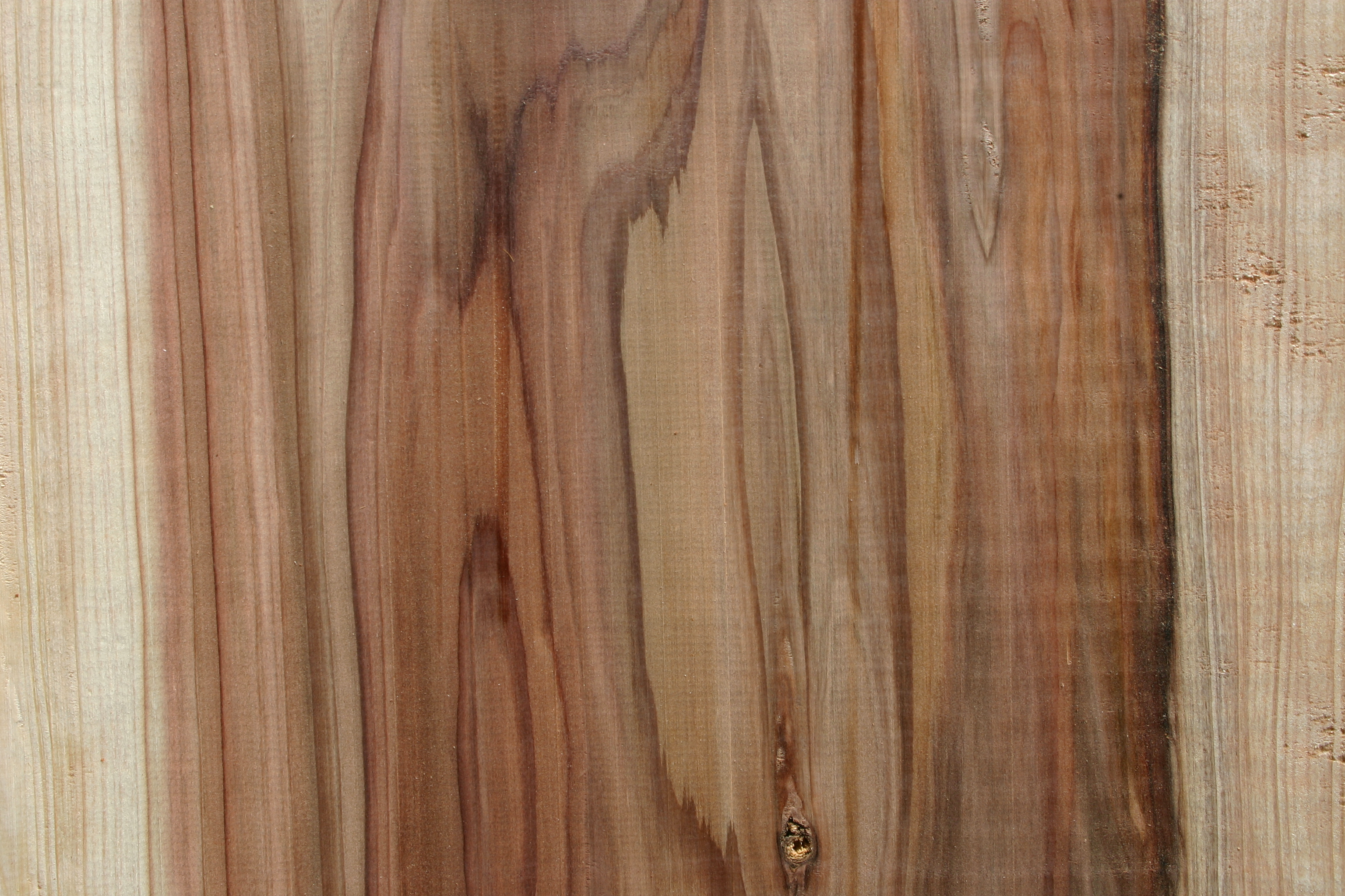 Plank of Cryptomeria japonica cultivated in Johannesburg, South Africa